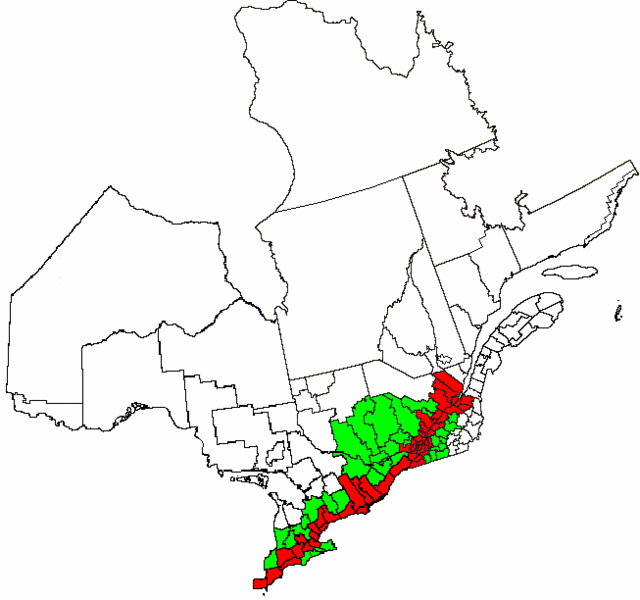 Quebec City-Windsor corridor: most densely-populated and heavily-industrialized region of Canada.